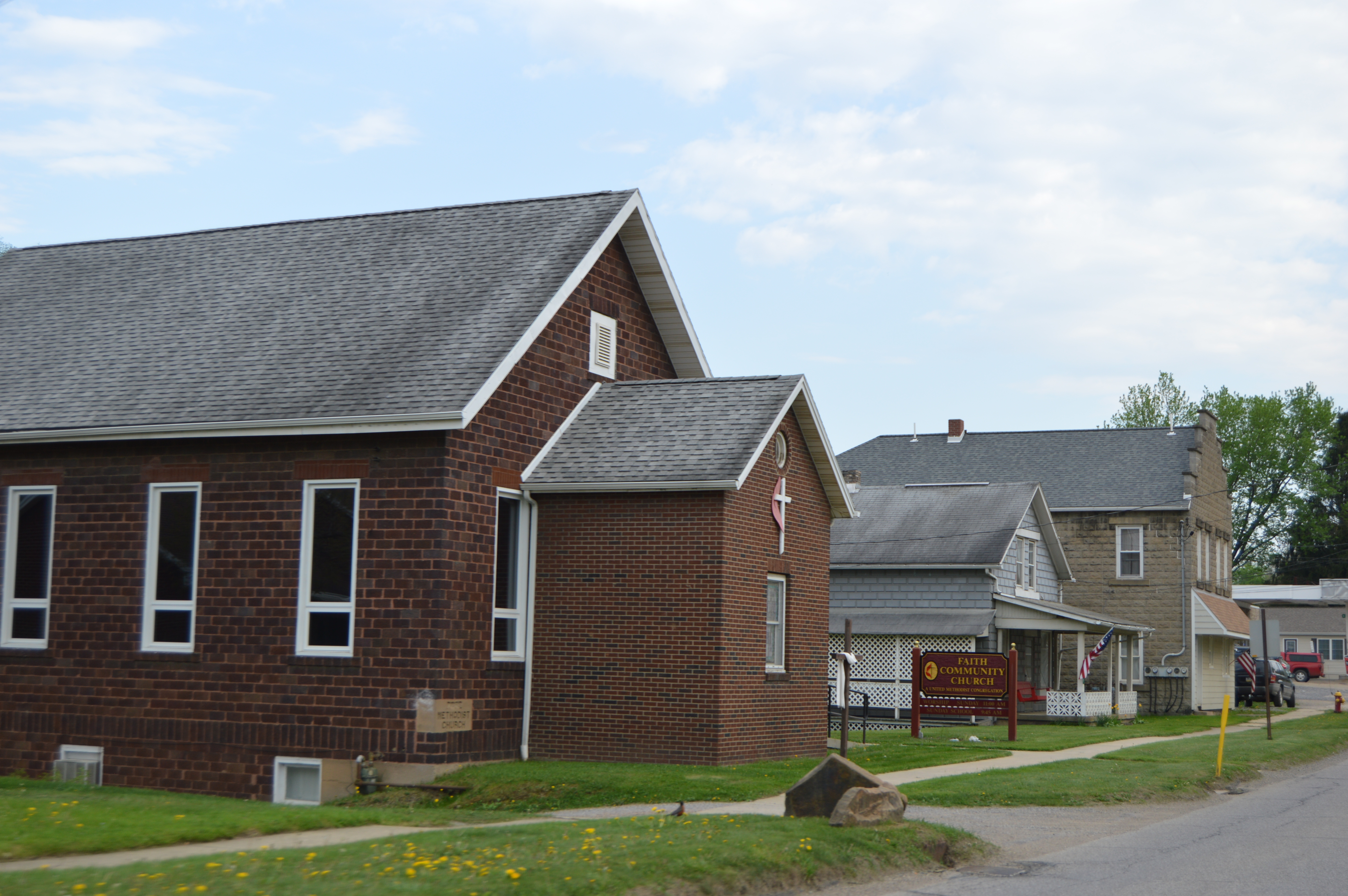 A collection of buildings on the eastern side of Main Street (Pennsylvania Route 268) north of Firehouse Drive in Bruin, Pennsylvania, United States.